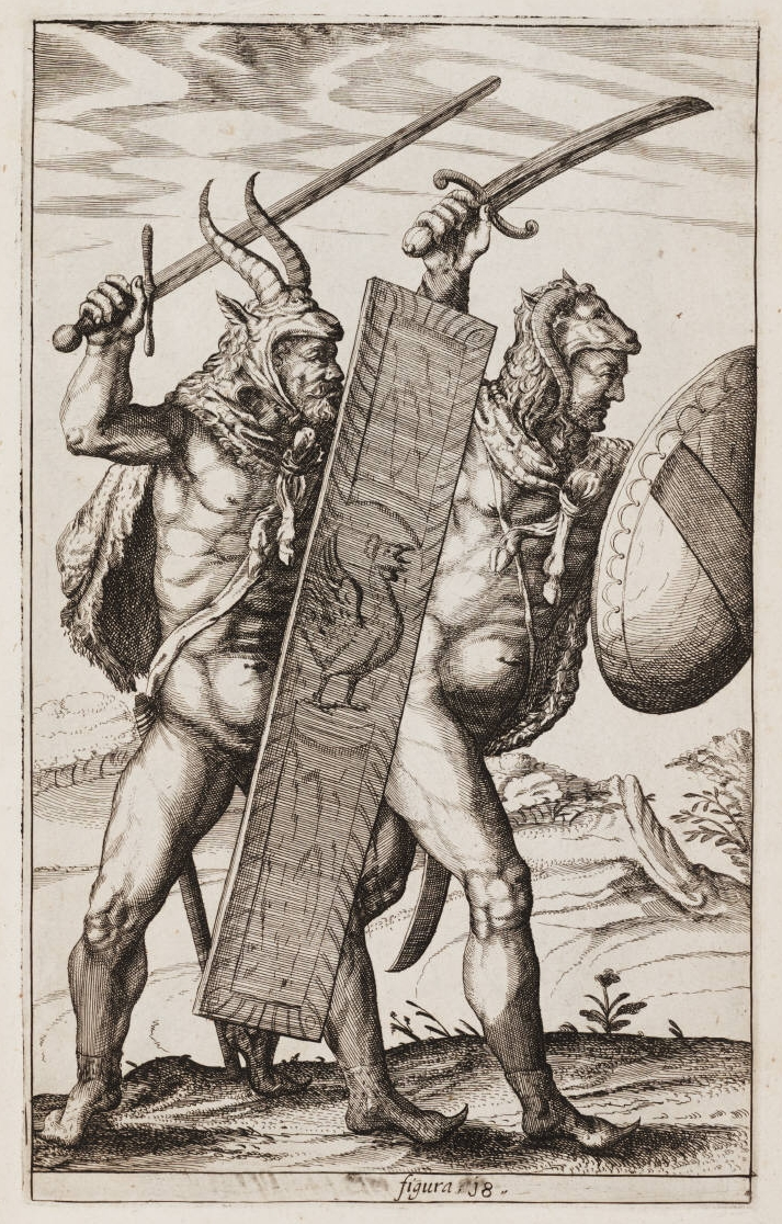 Plate 18 from Philip Clüver's Germania Antiqua (1616)